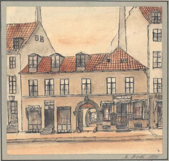 Karel van Manders house